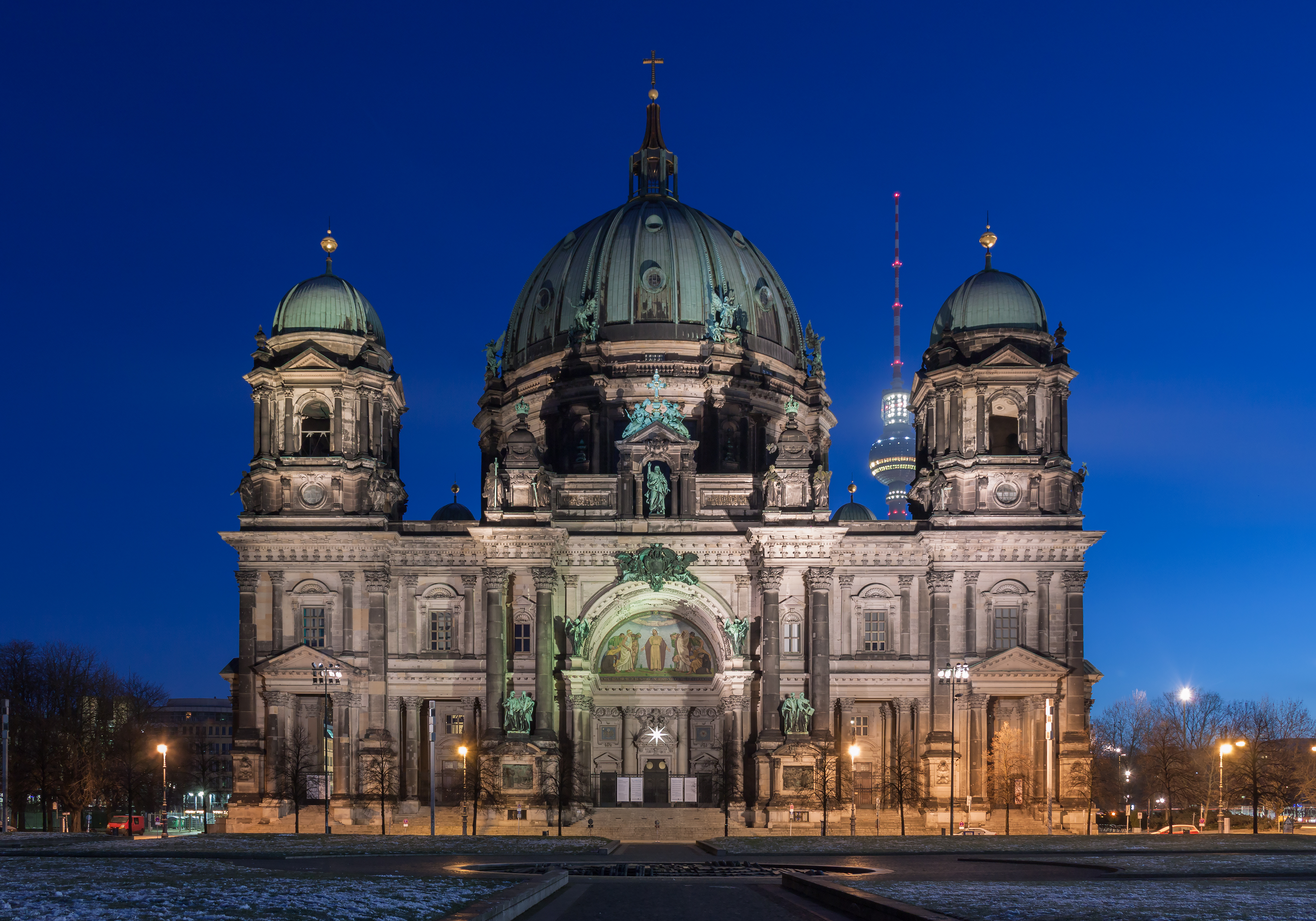 The west front of the Berlin Cathedral in the early morning at the blue hour.